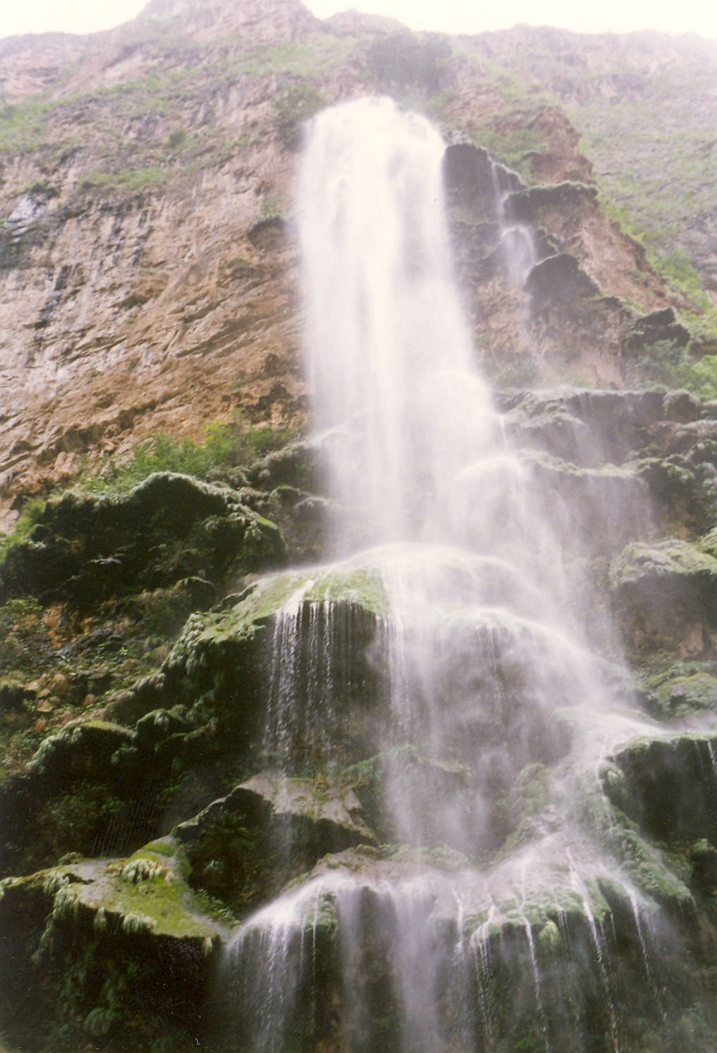 water falling down on Christmas Tree Waterfall in Cañón el Sumidero in the National Park of the same name on the river Grijalva, Chiapas, Mexico. Picture taken in fall 1998.